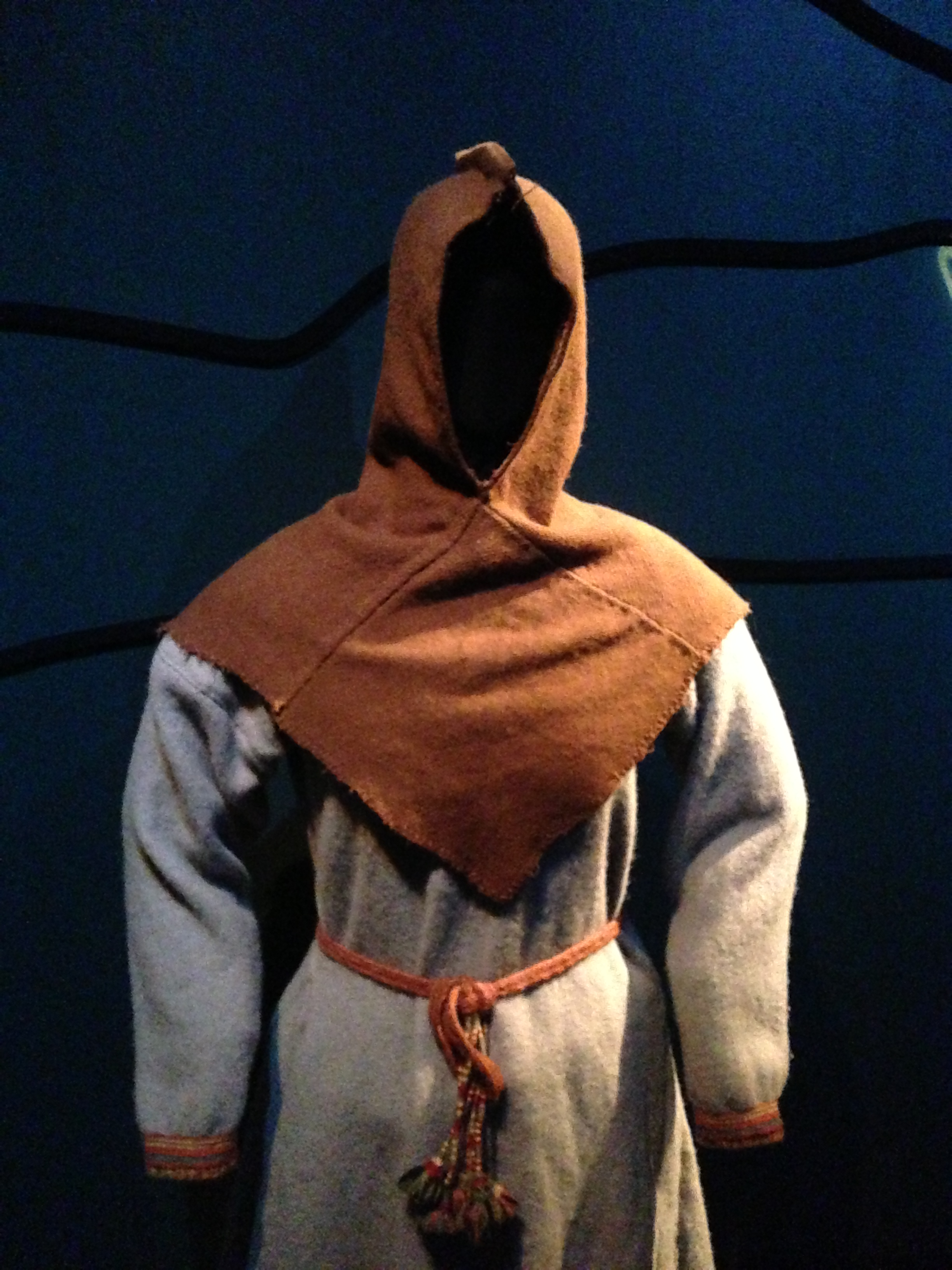 Viking-era fashion - a cowl ensemble